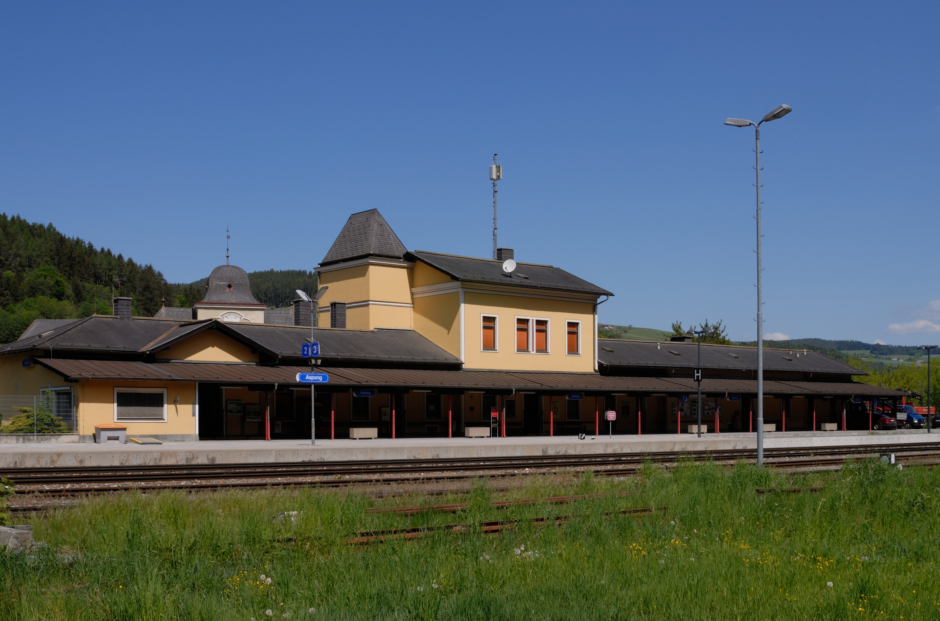 Railway station Aspang, former end of the line Aspangbahn, Lower Austria